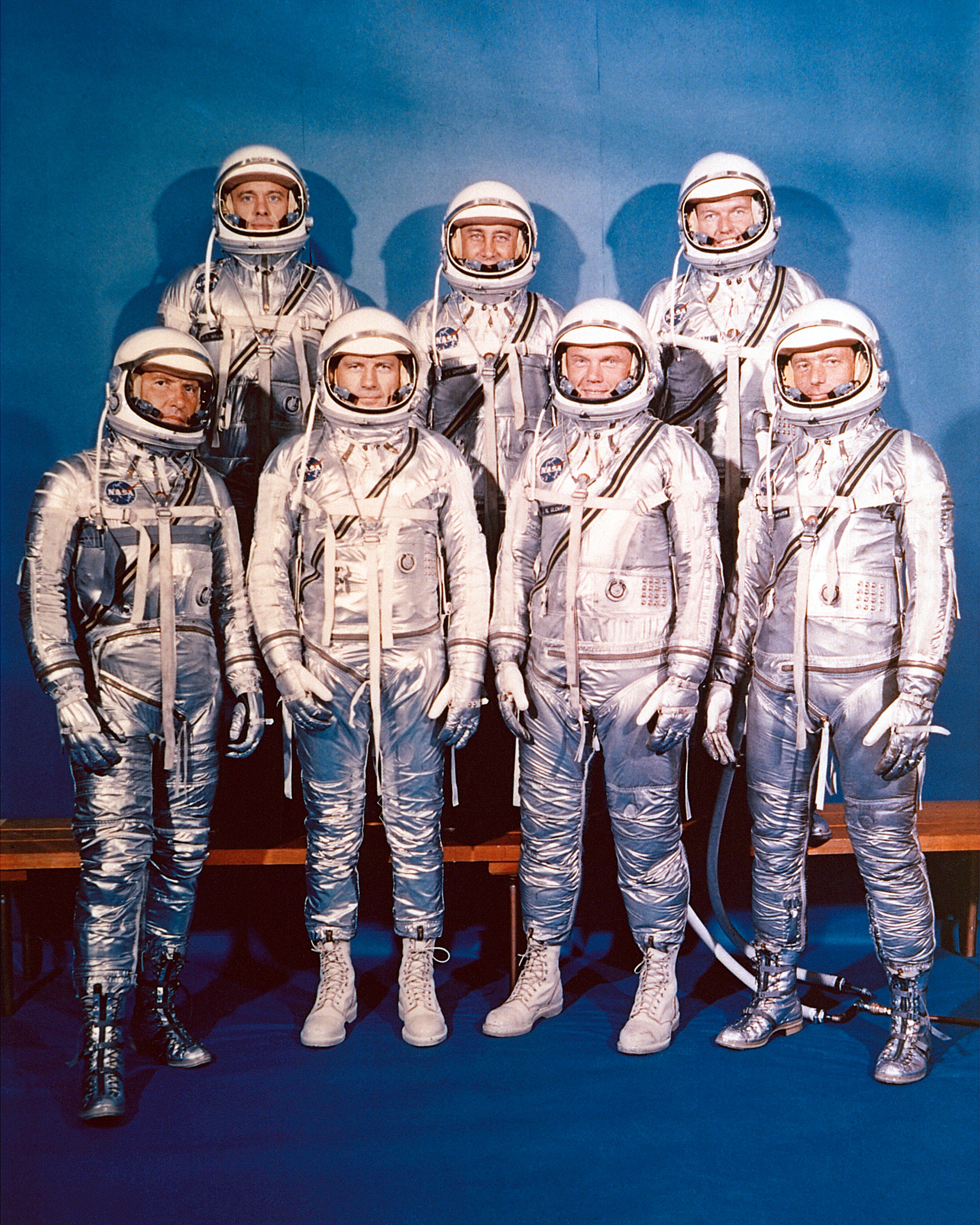 Project Mercury Astronauts, whose selection was announced on April 9, 1959, only six months after the National Aeronautics and Space Administration was formally established on October 1, 1958. They are: front row, left to right, Walter H. Schirra, Jr., Donald K. Slayton, John H. Glenn, Jr., and Scott Carpenter; back row, Alan B. Shepard, Jr., Virgil I. Gus Grissom, and L. Gordon Cooper.